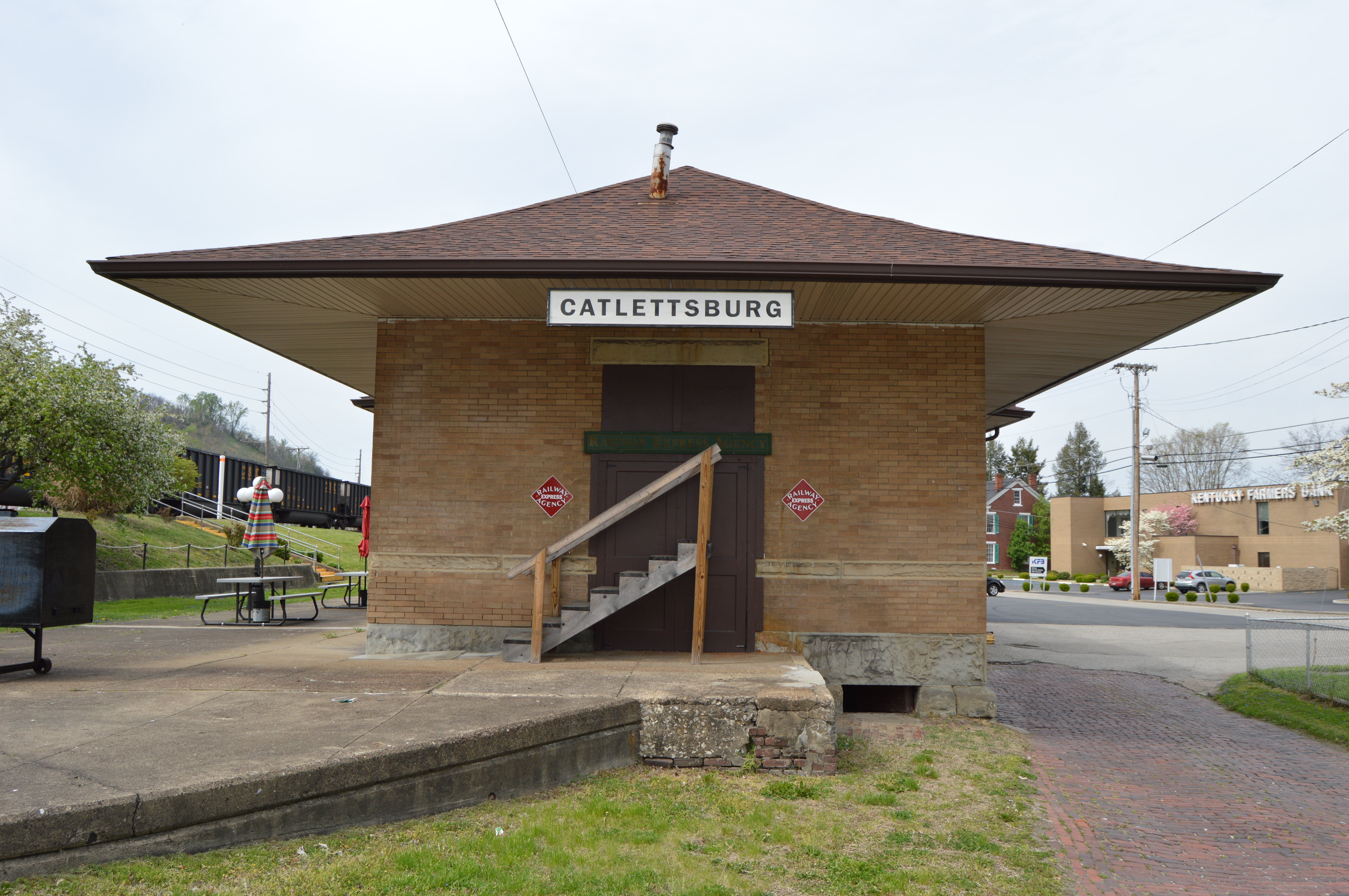 Southern end of the Catlettsburg C&O depot, located at the western end of Twenty-sixth Street in Catlettsburg, Kentucky, United States. Built in 1885, it is listed on the National Register of Historic Places.